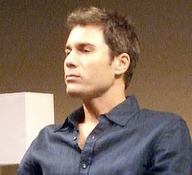 American actor Eric McCormack